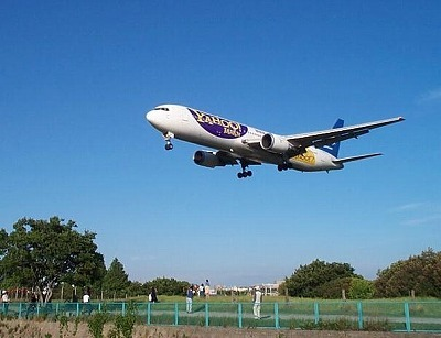 osaka itami airport